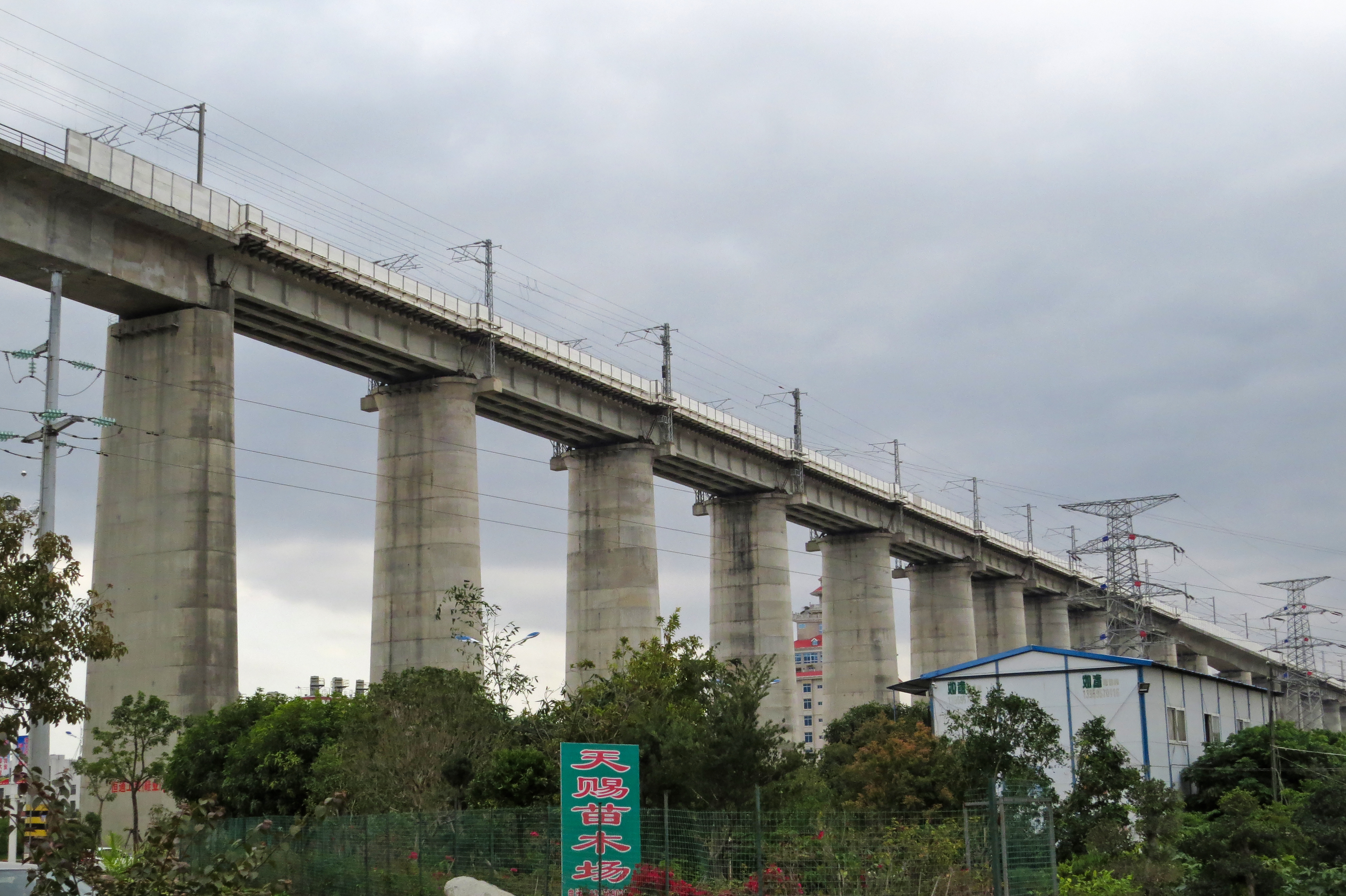 The name of Yongtai-Putian section on mileage table is Yongpu Line (永莆线).